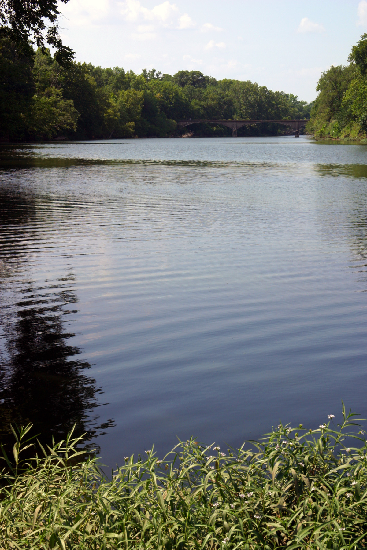 A view of the Spring River from Riverside Park in Baxter Springs, Kansas. ⇒ Views 1 • 2 • 3